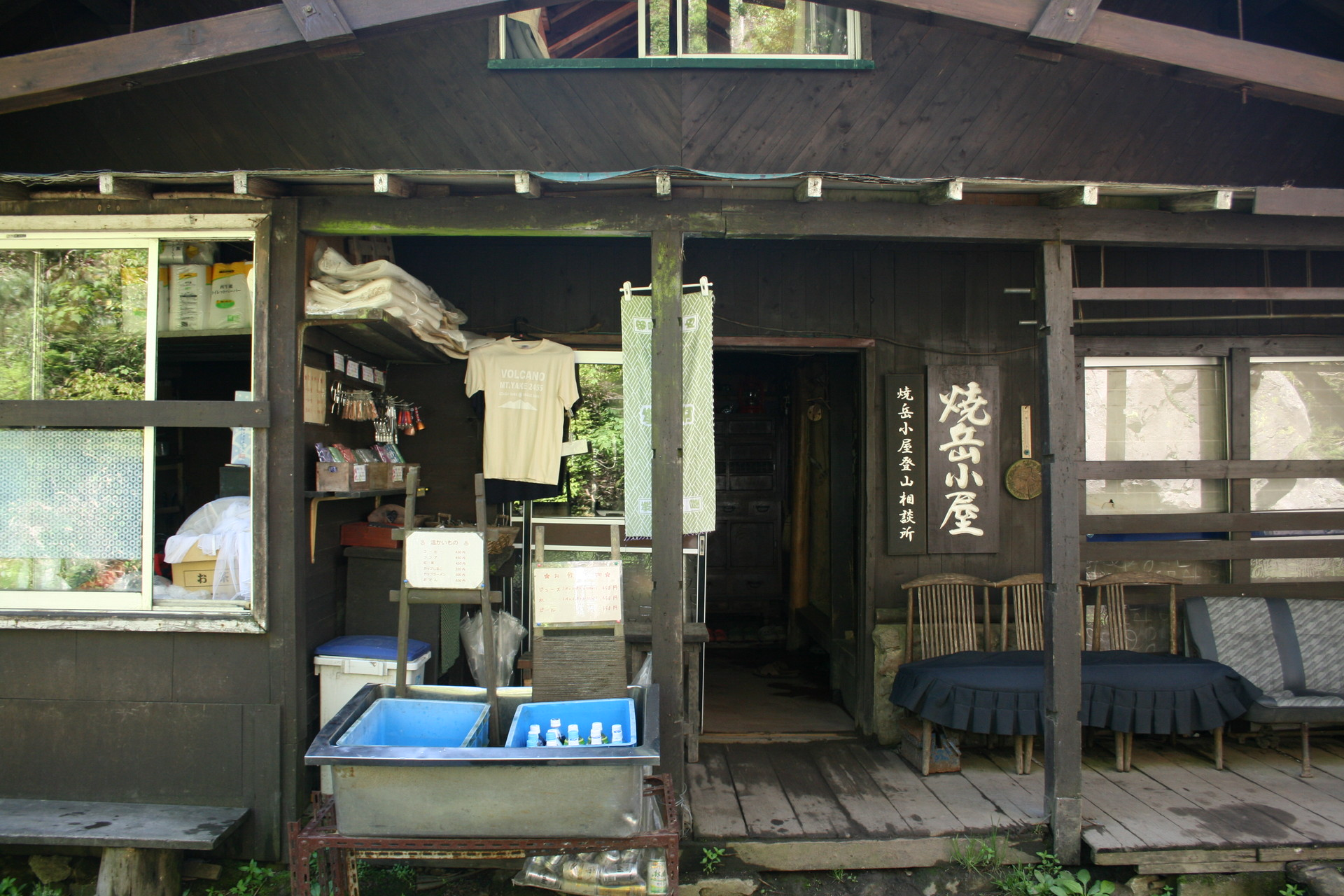 Mountain Huts Mount Yake, in Hida Mountains, Japan.